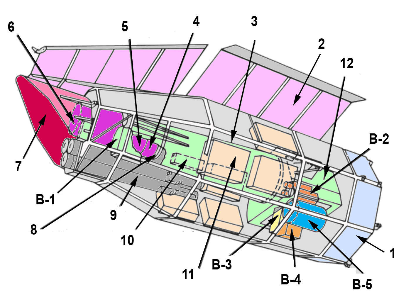 Schematic of HEAO 2